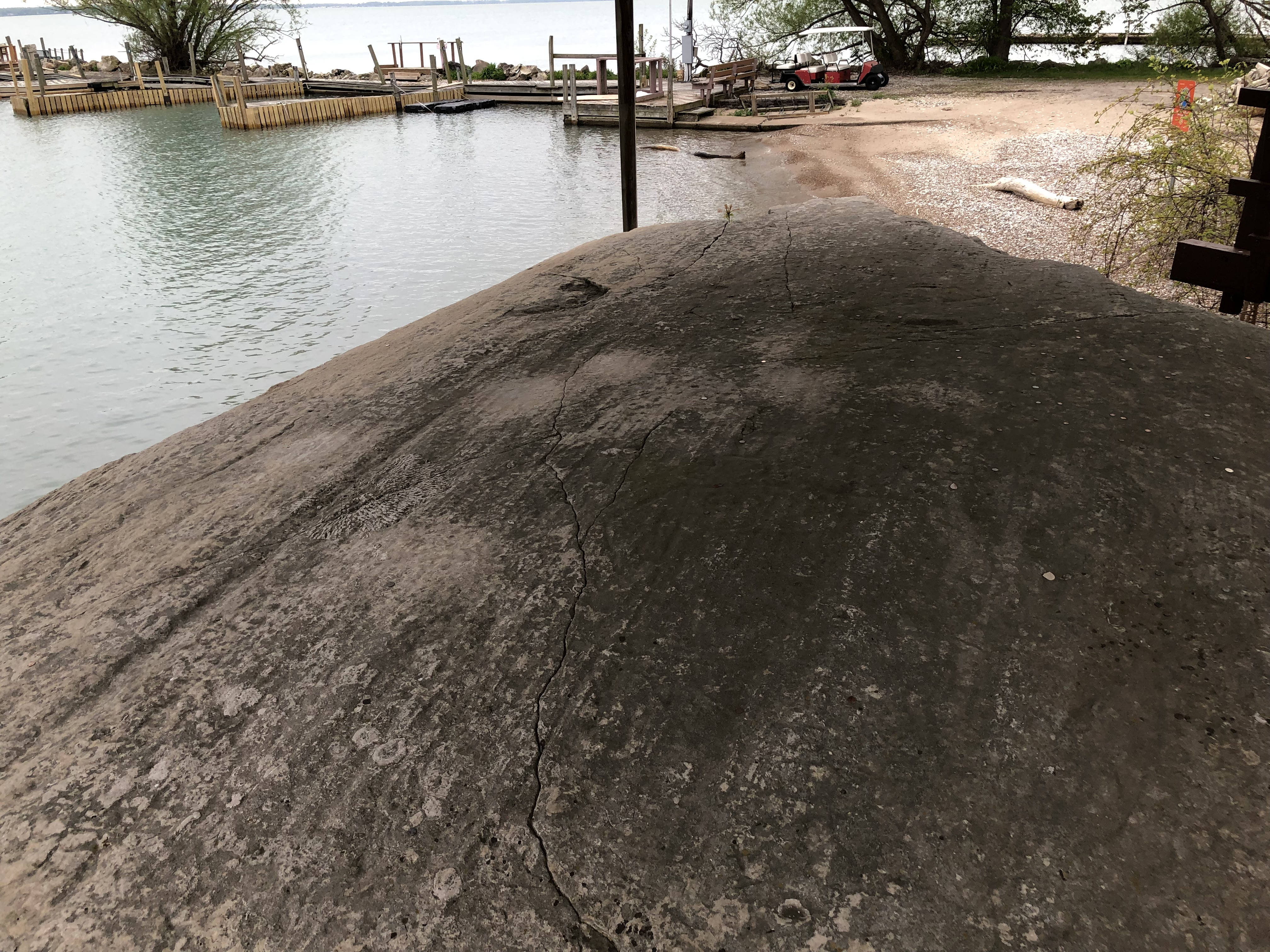 Focusing on the crack forming through the rock.